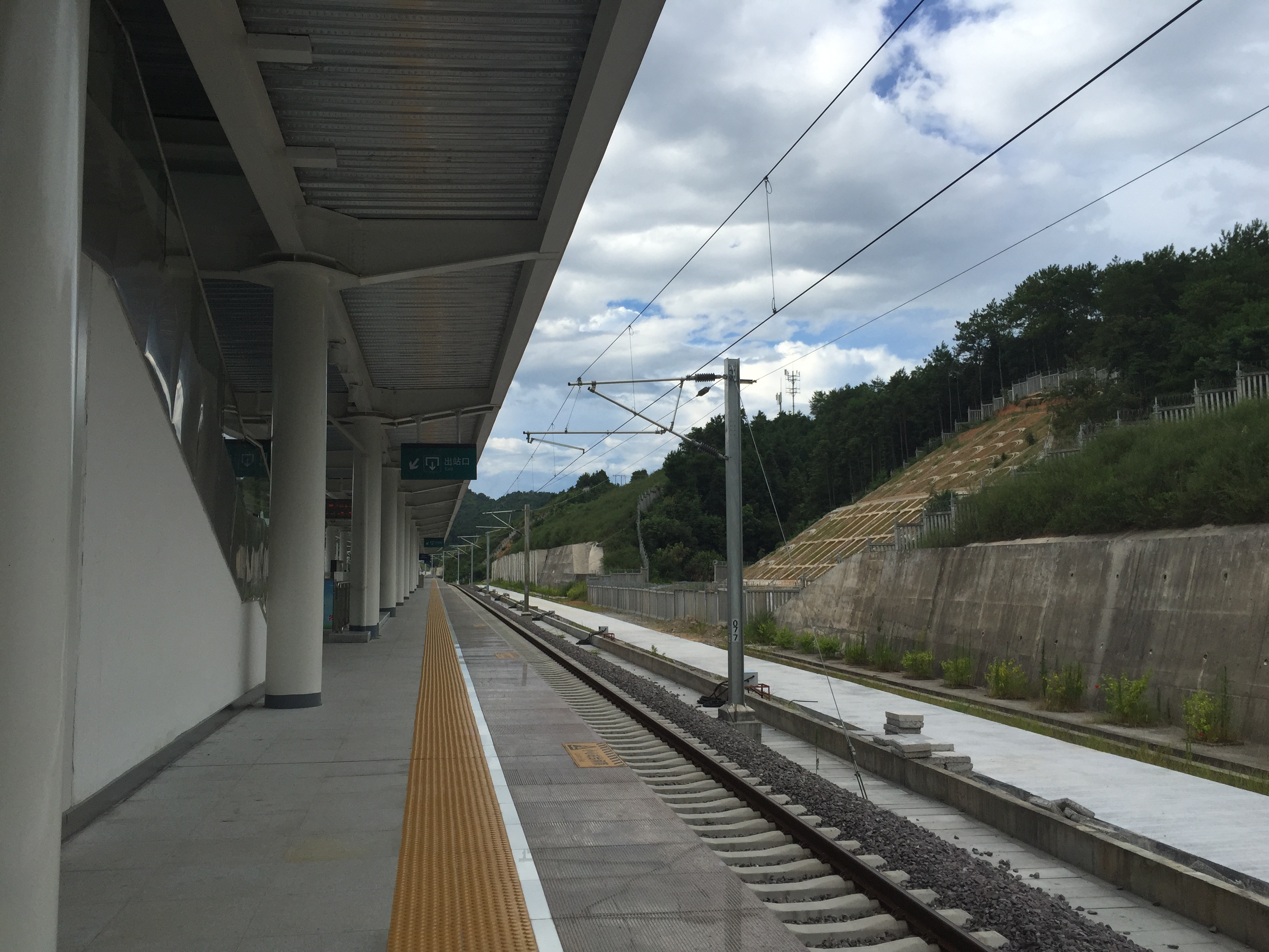 Northwards.